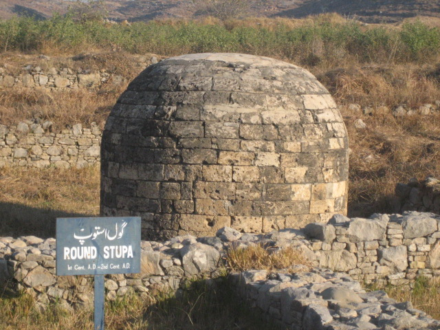 Round Stupa at Sirkap, Taxila.